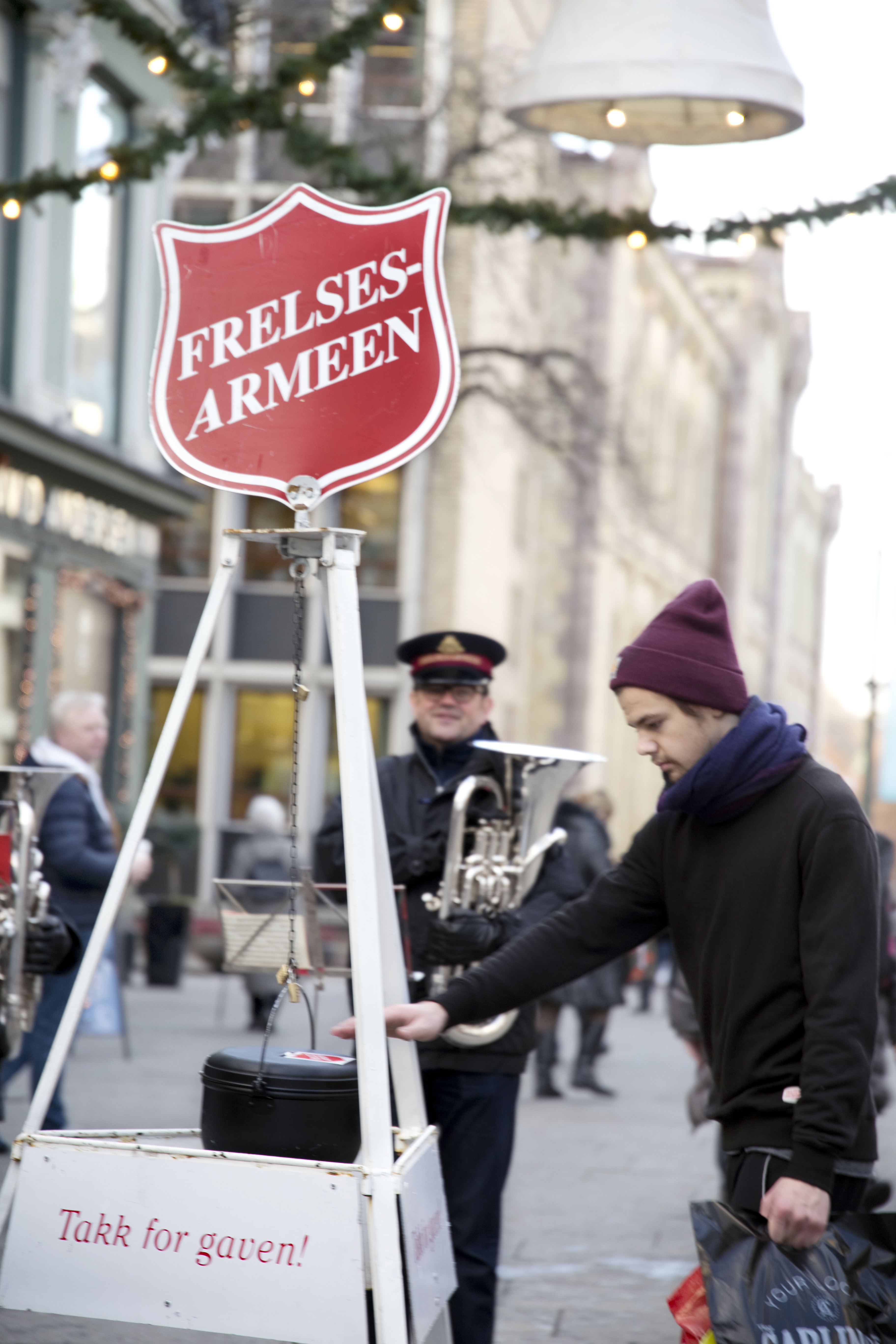 Julegryta på Egertorget i Oslo.